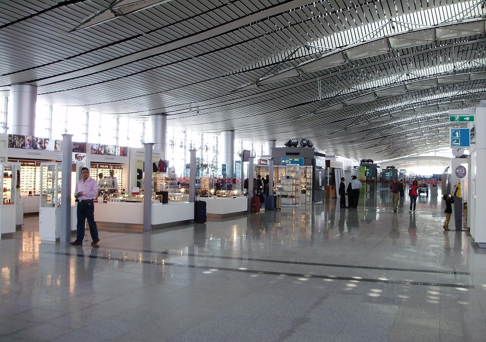 Departures area at Rajiv Gandhi Int'l Airport, Hyderabad, India